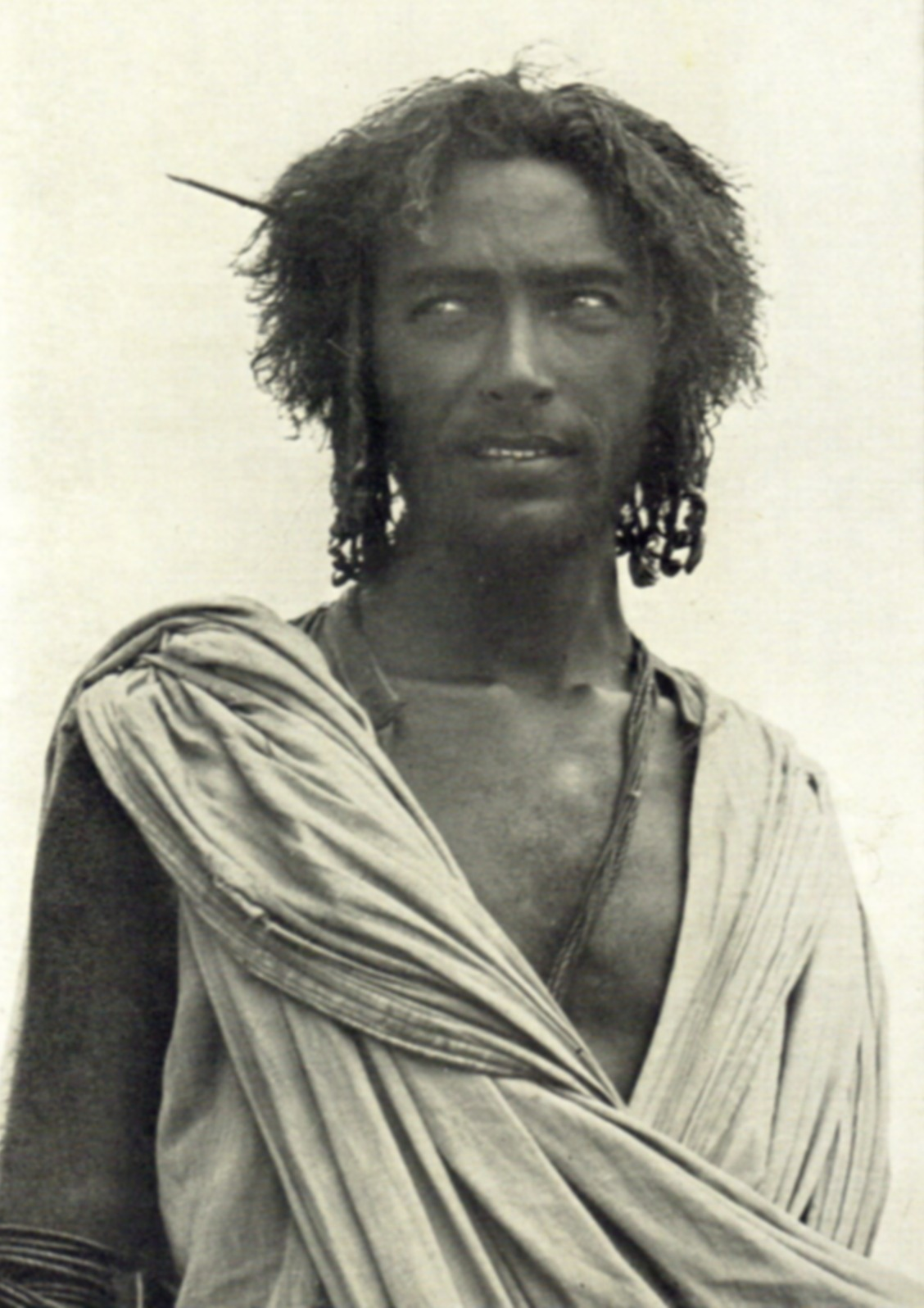 An Afar man in traditional nomad attire.